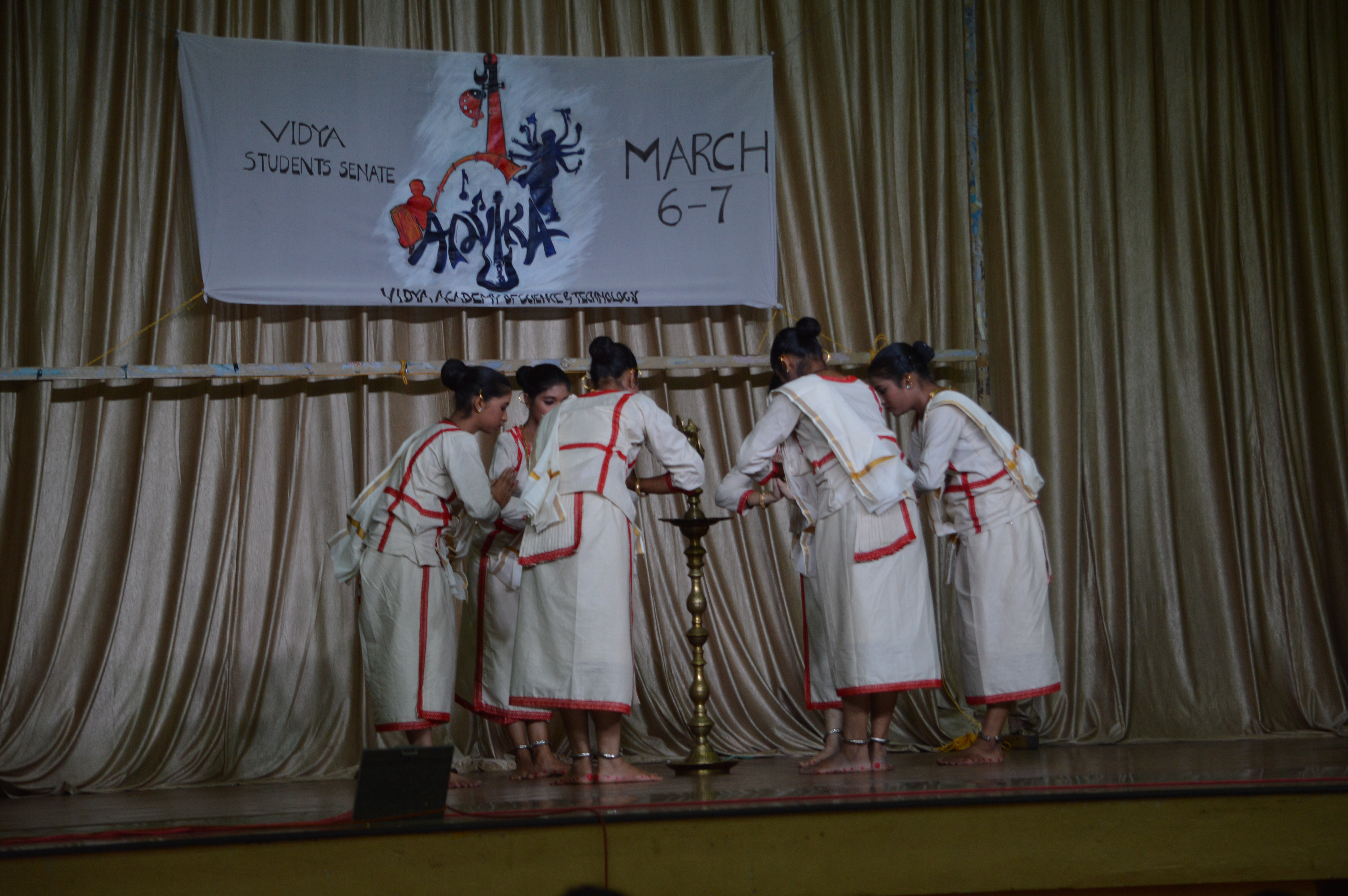 Margamkali performance.